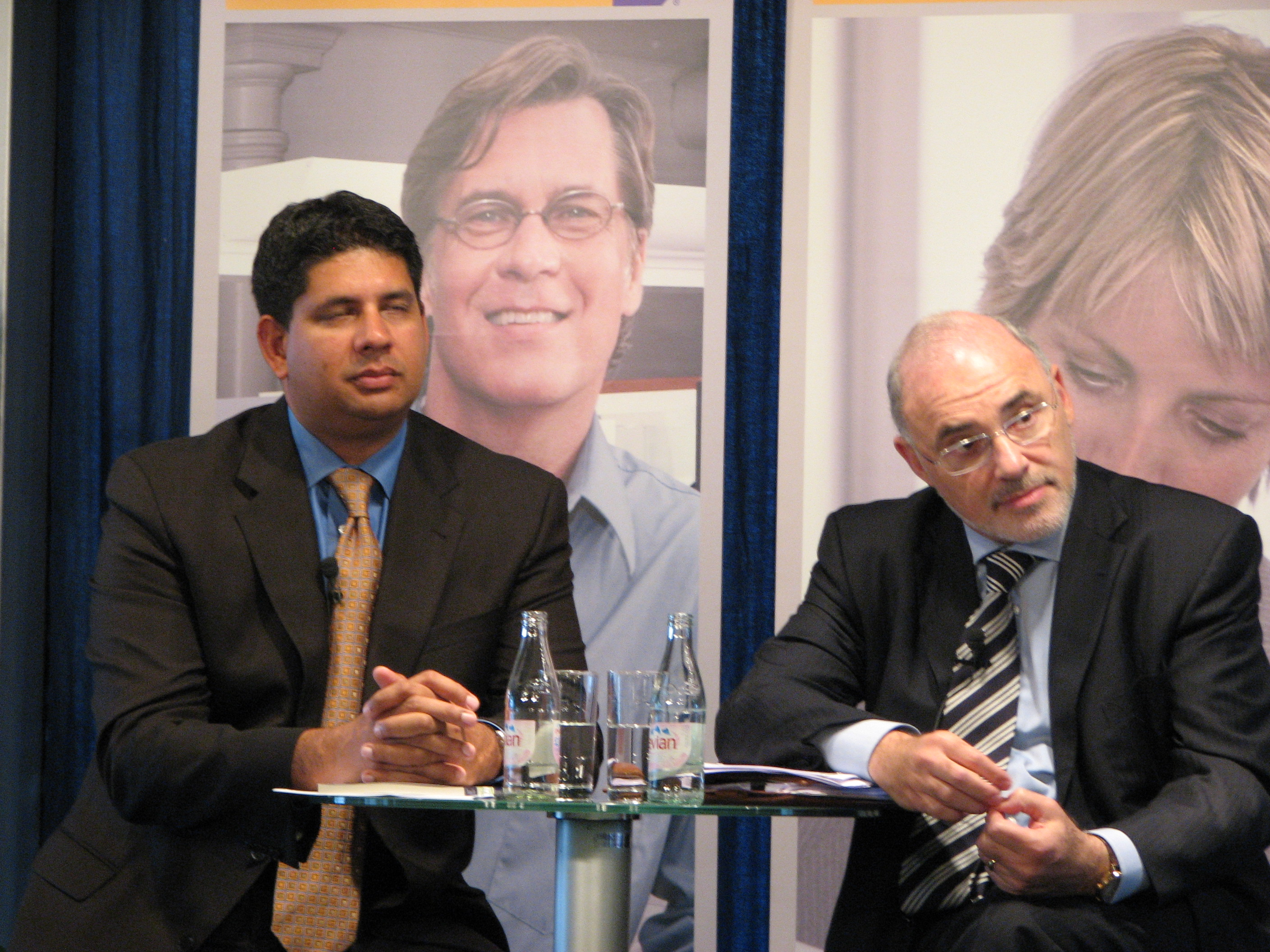 Léo Apotheker